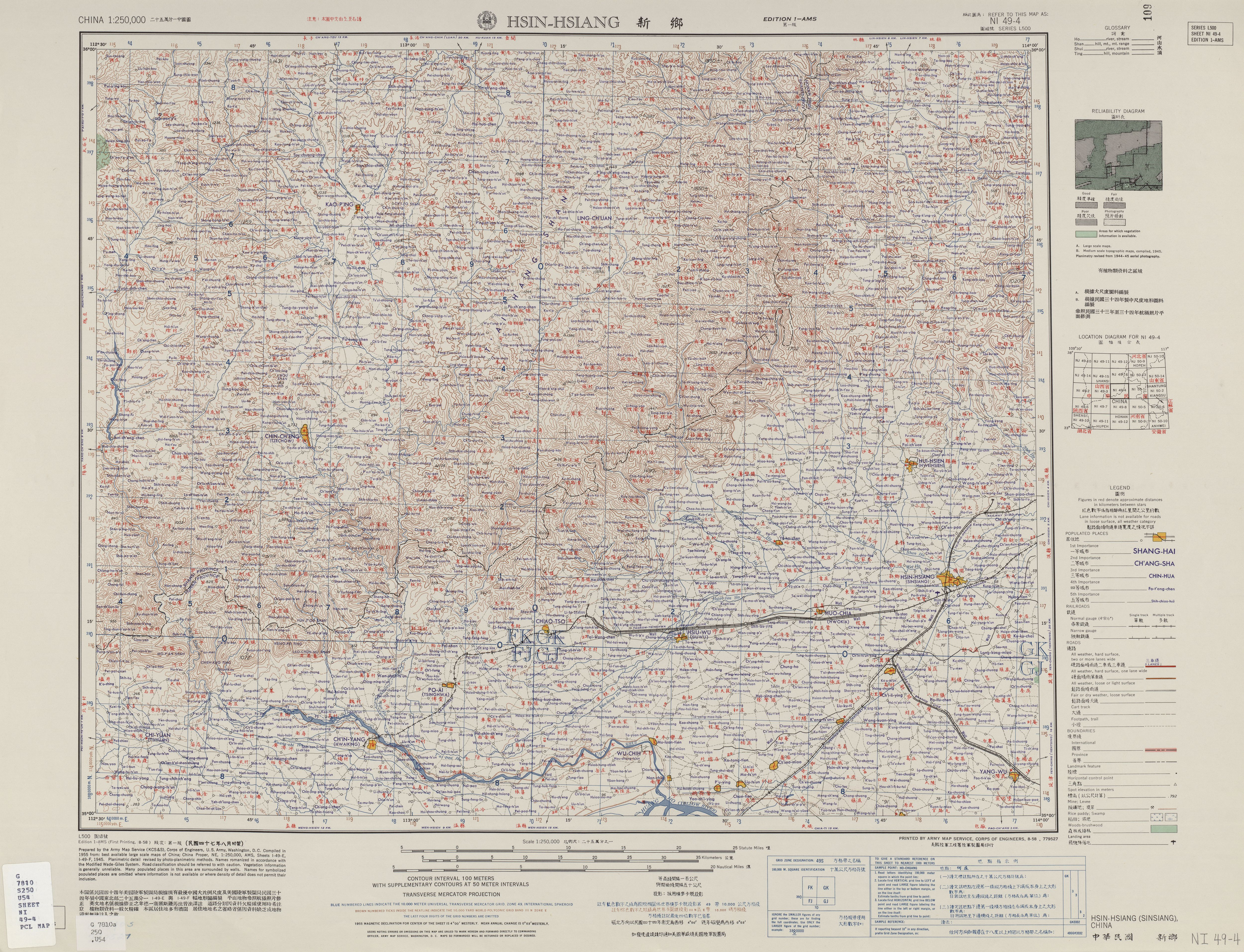 China AMS Topographic Maps